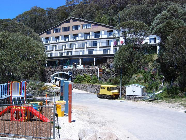 Falls Creek Hotel in summer (January). This is only 50m from the main ski bowl. Note snowcat and snow trailers beside the road. I took this picture in January 2006. Peter Ellis 22:21, 4 January 2006 (UTC)